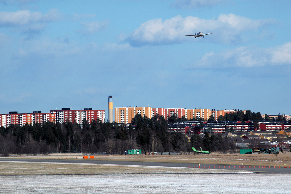 Barkarby airfield north of Stockholm